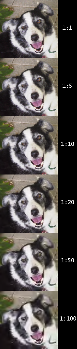 This image is a PNG for the demonstration of the compression artifacts of JPEG 2000. I (Shlomi Tal) took the photo of the dog and used it for the demonstration pictures on the Lossy Data Compression page on the Hebrew Wikipedia. There the demonstration is with JPEG, so there are four separate pictures — the original PNG and three JPEGs of differing quality. But this cannot yet be done for JPEG 2000, because of lack of browser support. I converted the PNG (1:1) to JPEG 2000 files in compression ratios of 1:5, 1:10, 1:20, 1:50 and 1:100, then converted all six files into PPM (Portable Pixelmap) and merged them into a single image using pnmcat (from the Netpbm package), and finally converted the result into PNG and optimized it. Optimized with "Kashmir Web Optimizer" (free)